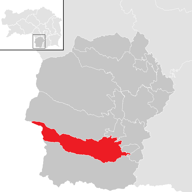 District Deutschlandsberg, Styria, Austria